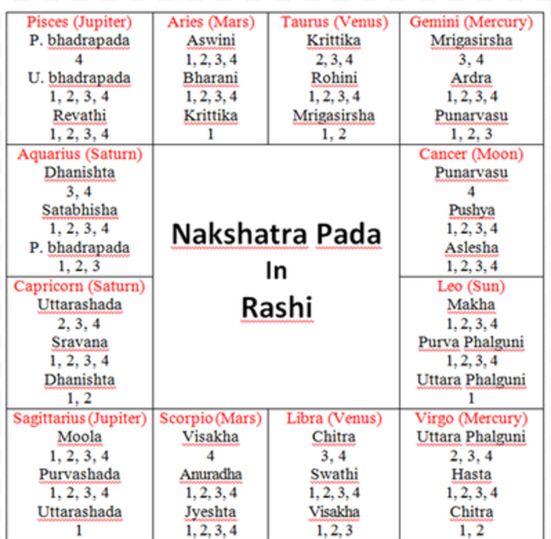 astrology chart